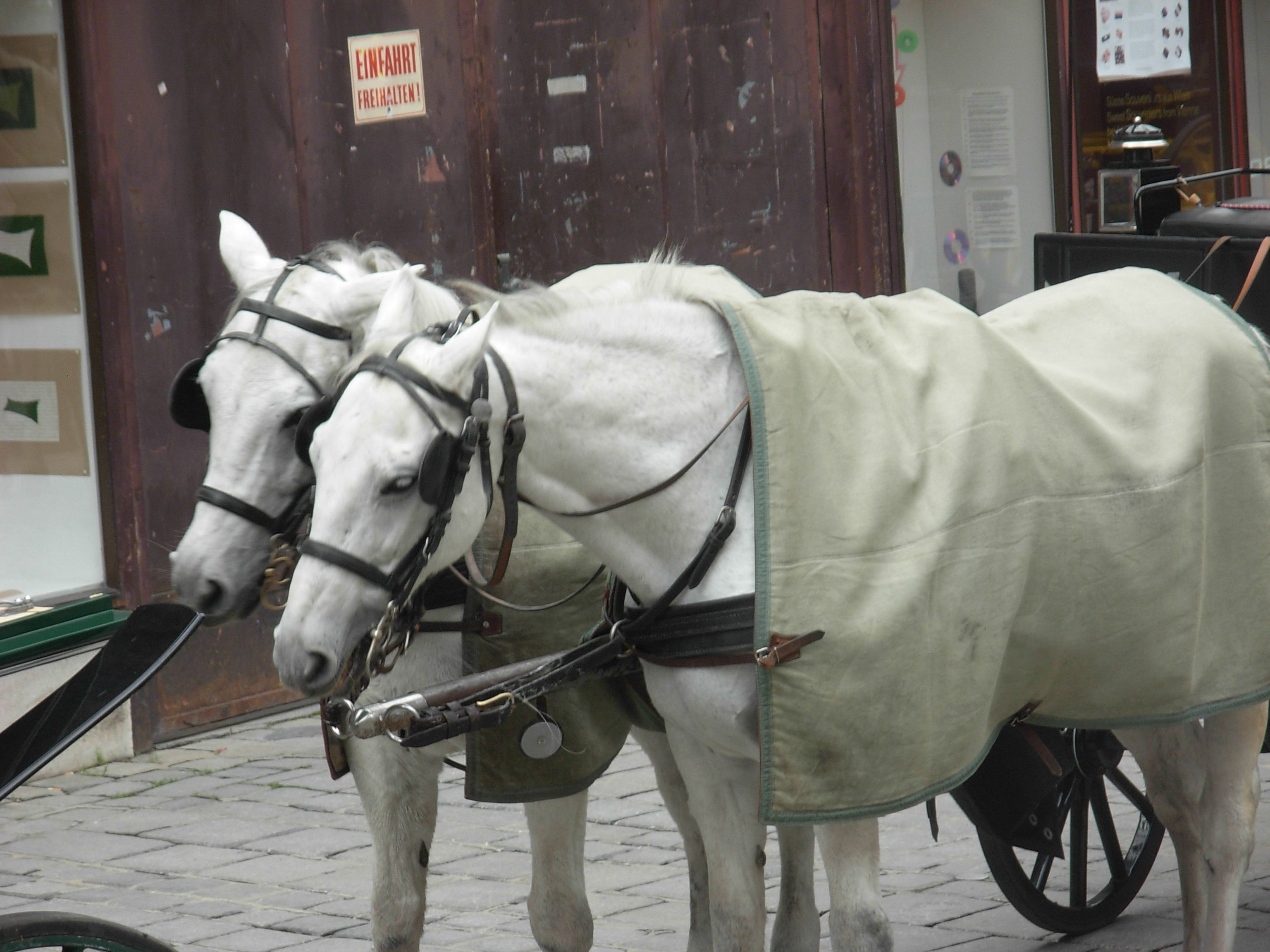 Two white horses tethered to buggy for tourists in Central Vienna, Austria